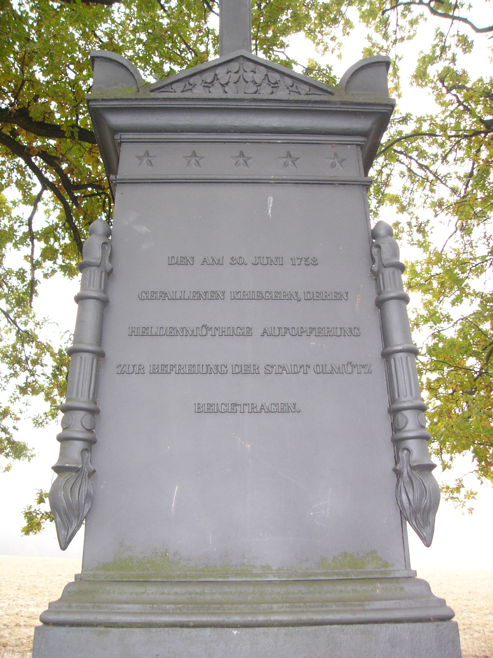 Detail of memorial dedicated to Battle of Domstadtl near Domašov nad Bystřicí (Czech Republic). There is written in German language: At 30th July 1758 to fallen warriors, whose bravery feat helped to free Olomouc city.